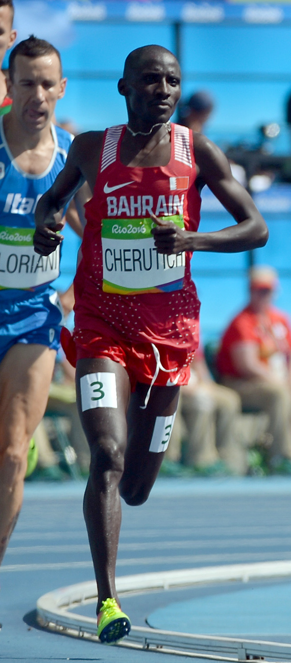 Nelson Kipkosgei Cherutich in the first of three qualifying heats in the men's 3,000-meter steeplechase on Aug. 15 at the 2016 Rio Olympic Games in Rio de Janeiro.